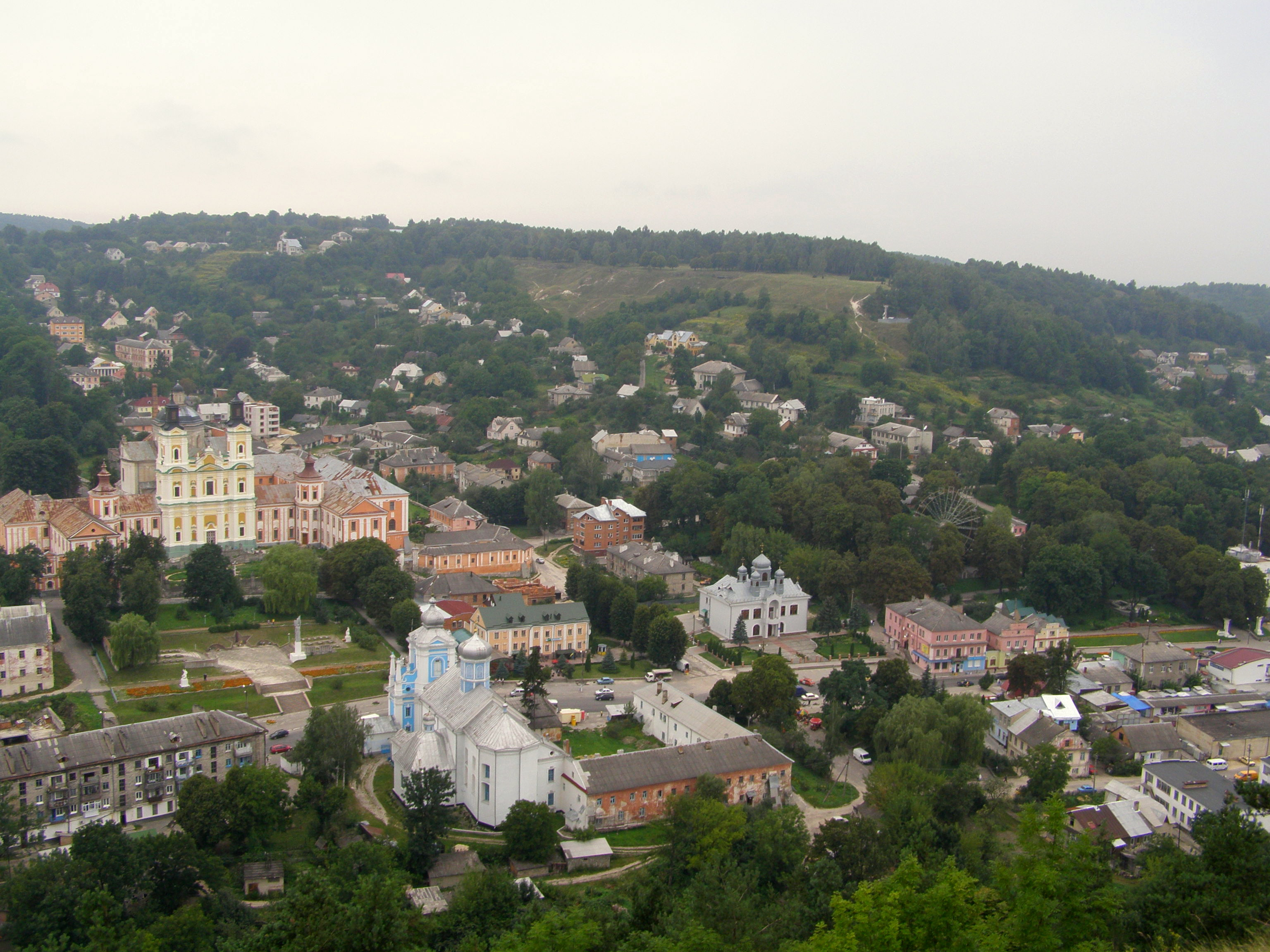 Kremenets, view from the castle, in the left Ukrainian Orthodox church (yellow-red) and Russian Orthodox church (blue)